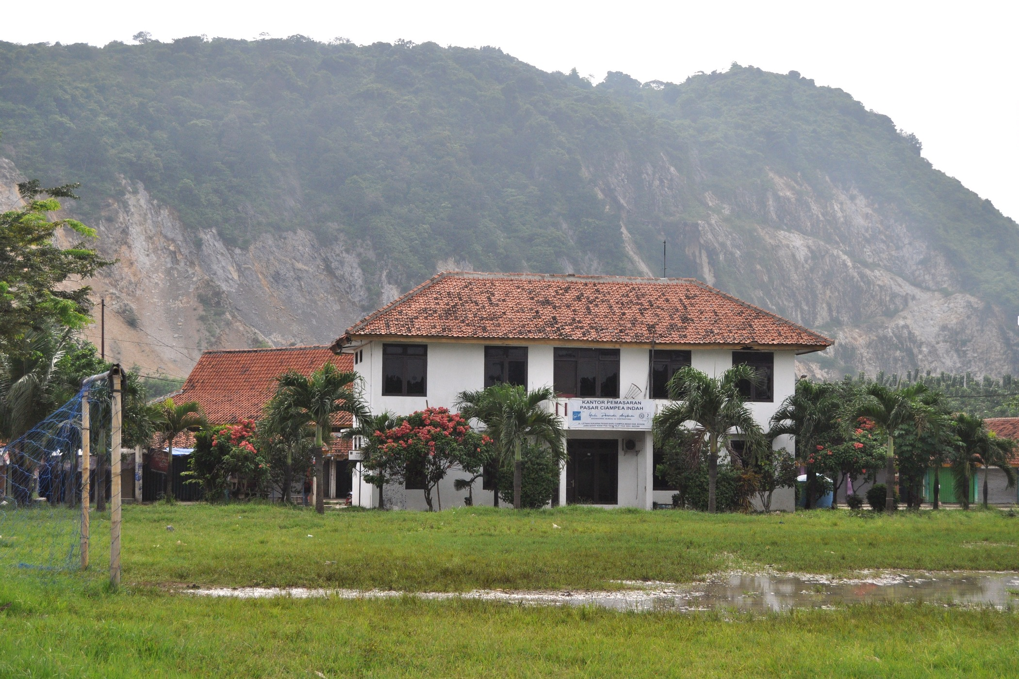 Traditional market of Ciampea, Bogor, West Java, Indonesia